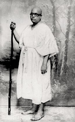 Dr. Babasaheb Ambedkar as a Bhikhu (Buddhist monk) after the demise of his first wife Ramabai, 1935